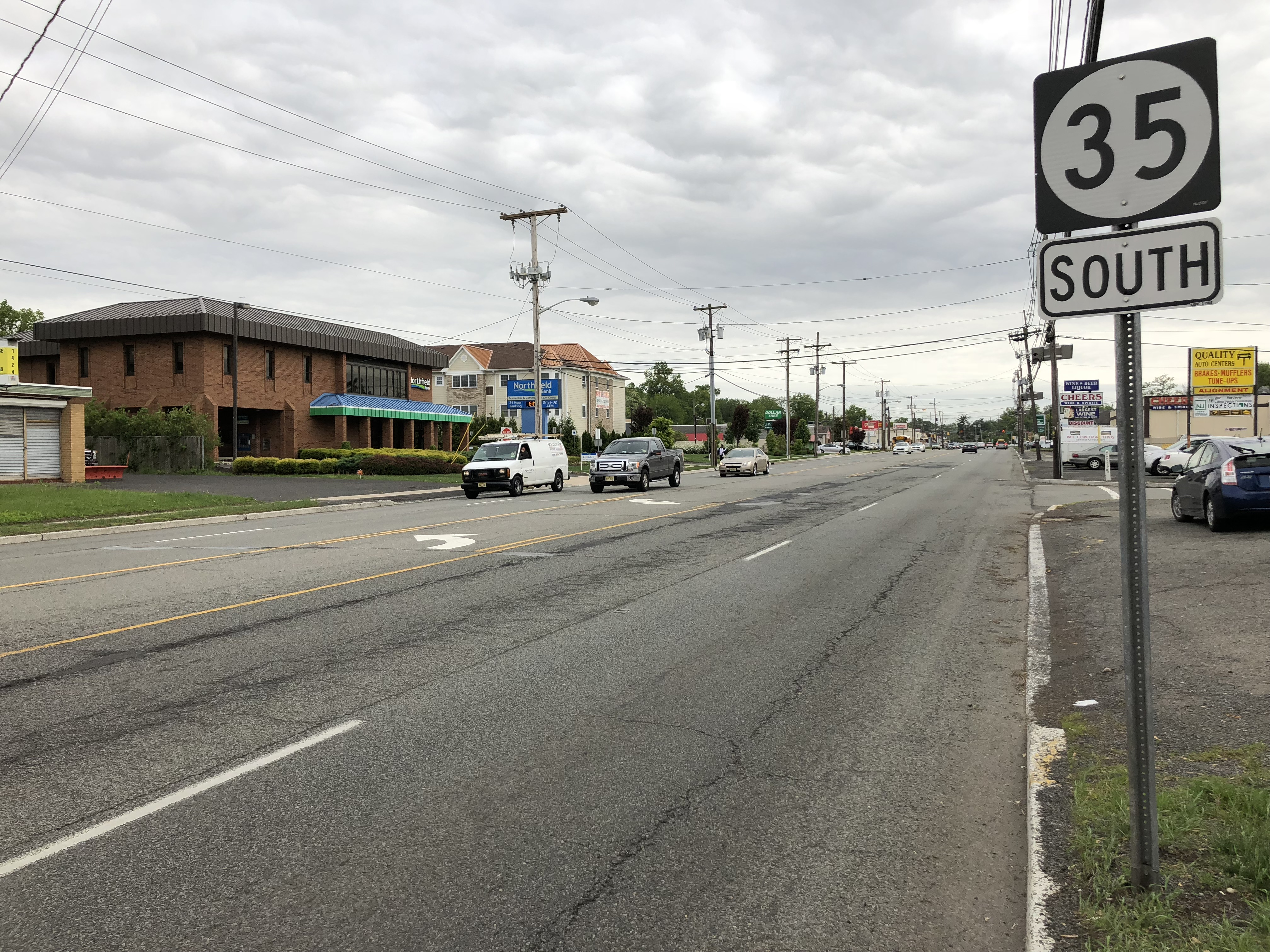 View south along New Jersey State Route 35 (Saint George Avenue) at Butler Street in Woodbridge Township, Middlesex County, New Jersey